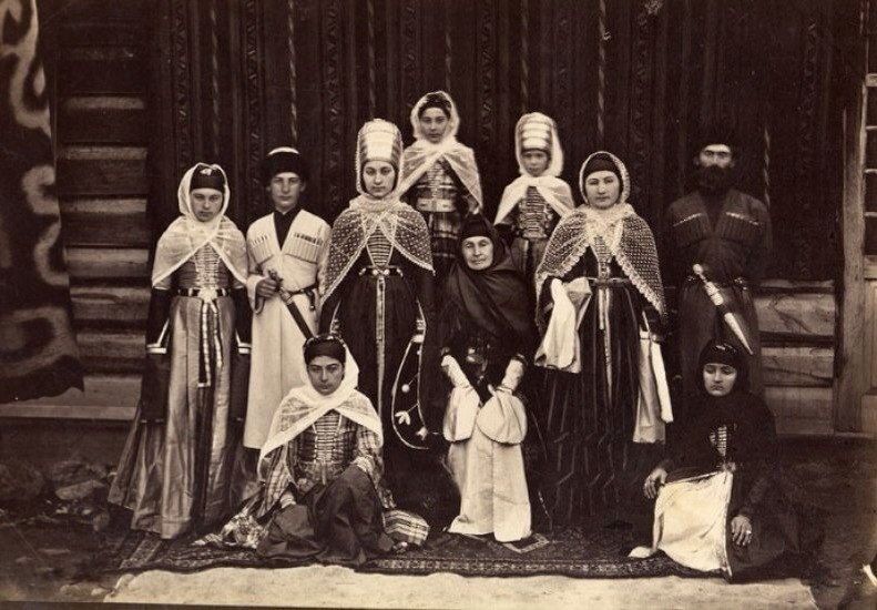 Баксанские князья Урусбиевы